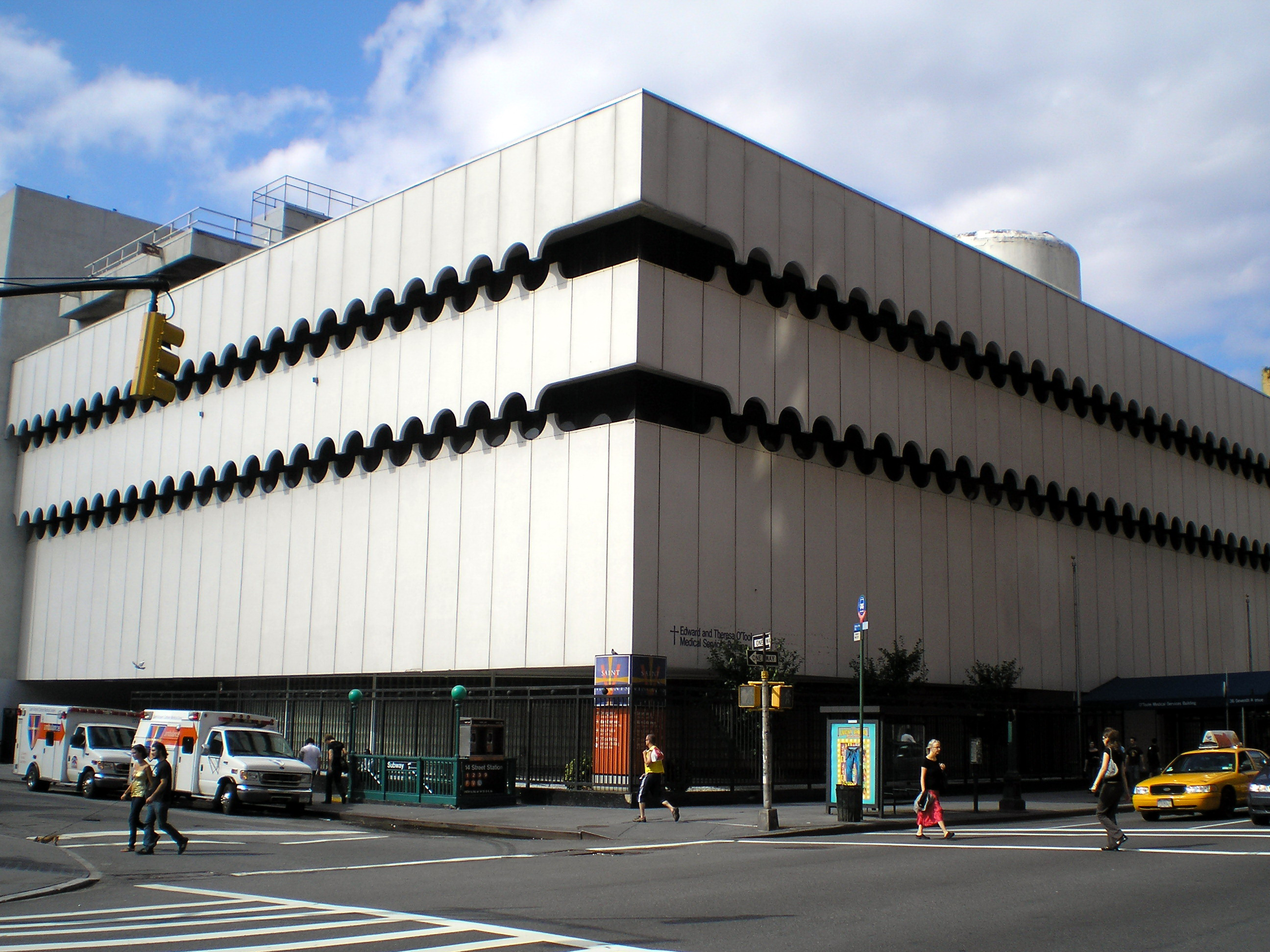 St. Vincent's O'Toole Medical Research Building.